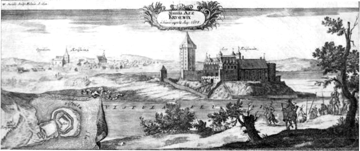 Munita Arx Krusewix (anyway wrong image - picture shown on Dahlbergh endrawing is a mirror image to real panorama ;))